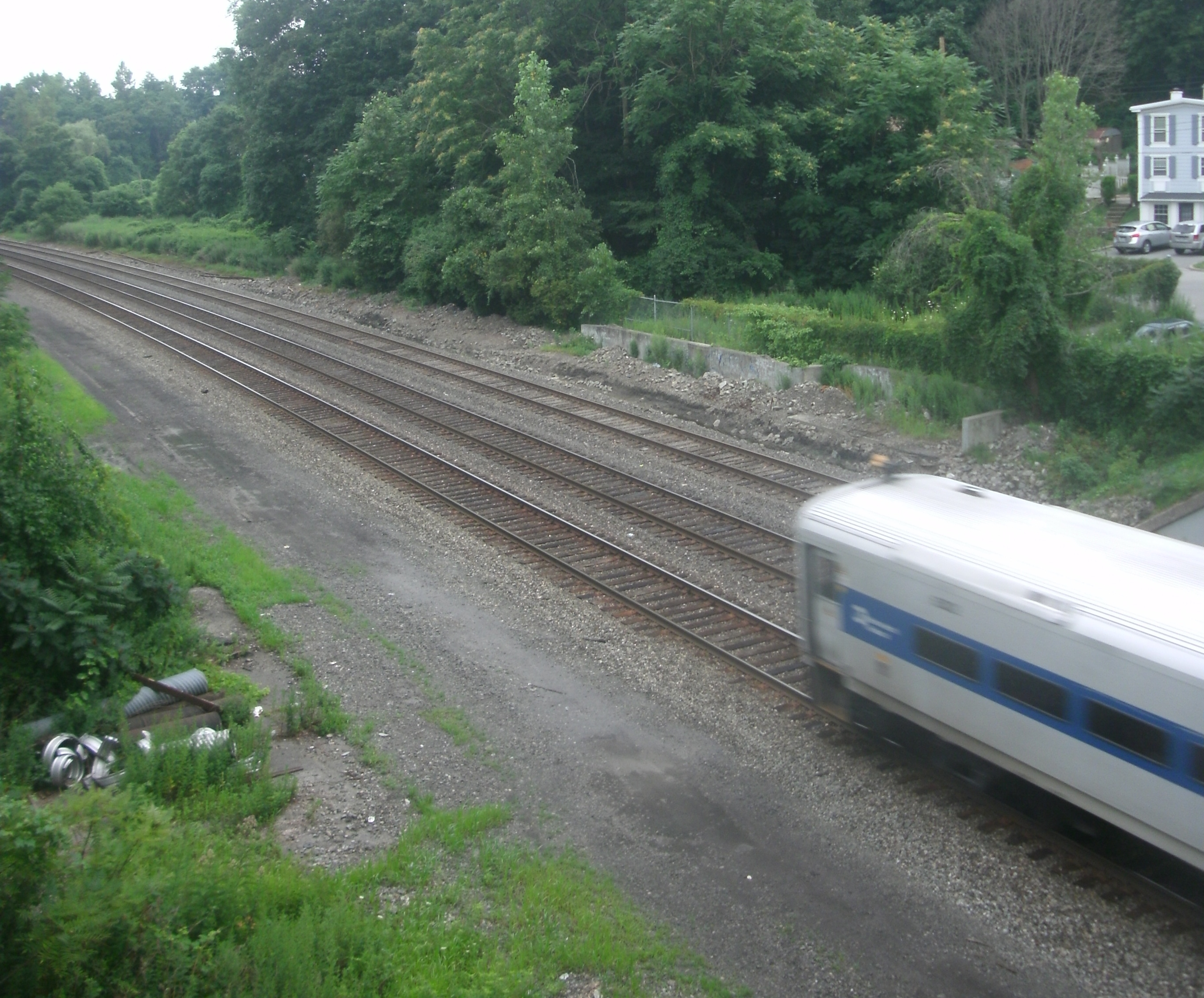 Montrose Metro-North Station in Montrose, New York, closed in 1996. A Metro-North car heading northbound to Poughkeepsie passes by.